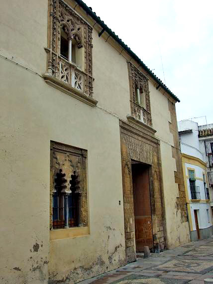 Casa del Indiano, in Córdoba (Spain).